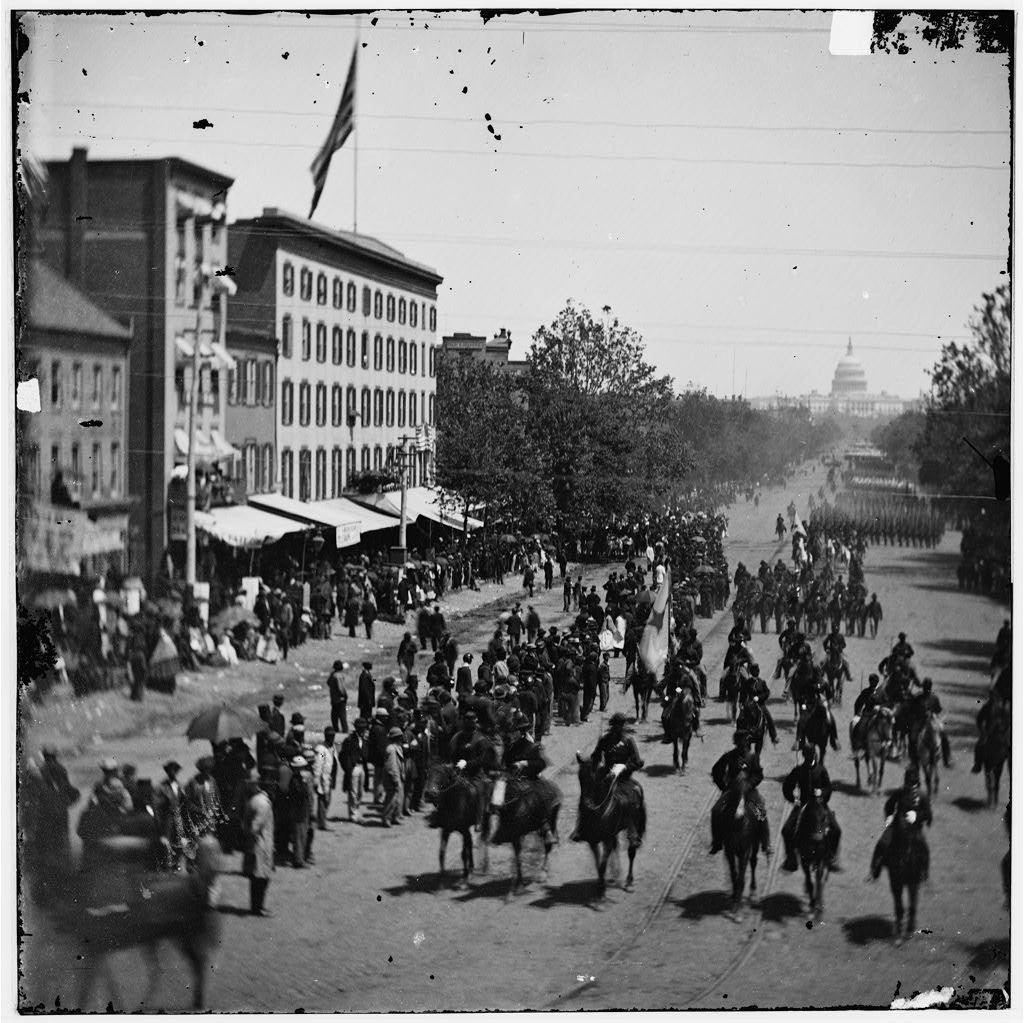 Washington, District of Columbia. Grand Review of the Army [Cavalry] and infantry passing on Pennsylvania Avenue near the Treasury